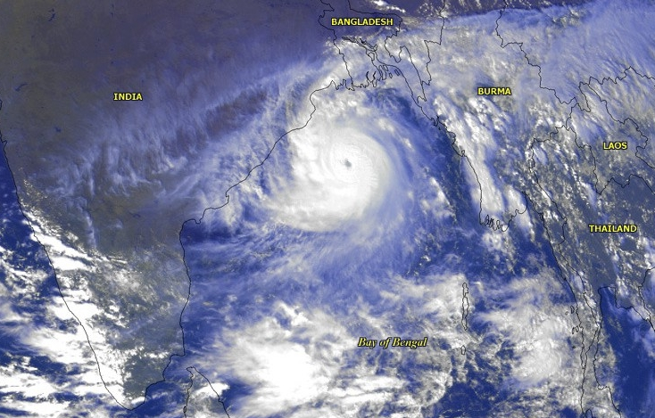 NOAA satellite imagery of 1999 Orissa Cyclone 05B. Located in the Bay of Bengal - east of India. Cropped version of [1]